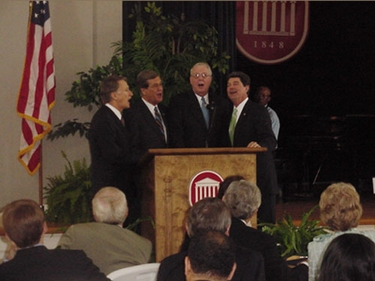 Senator Lott reunites with his old college singing buddies for a impromptu performance at the Leadership Institute dedication. (l) Judge Allen Pepper, Senator Lott, Gaylen Roberts and Guy Hovis.